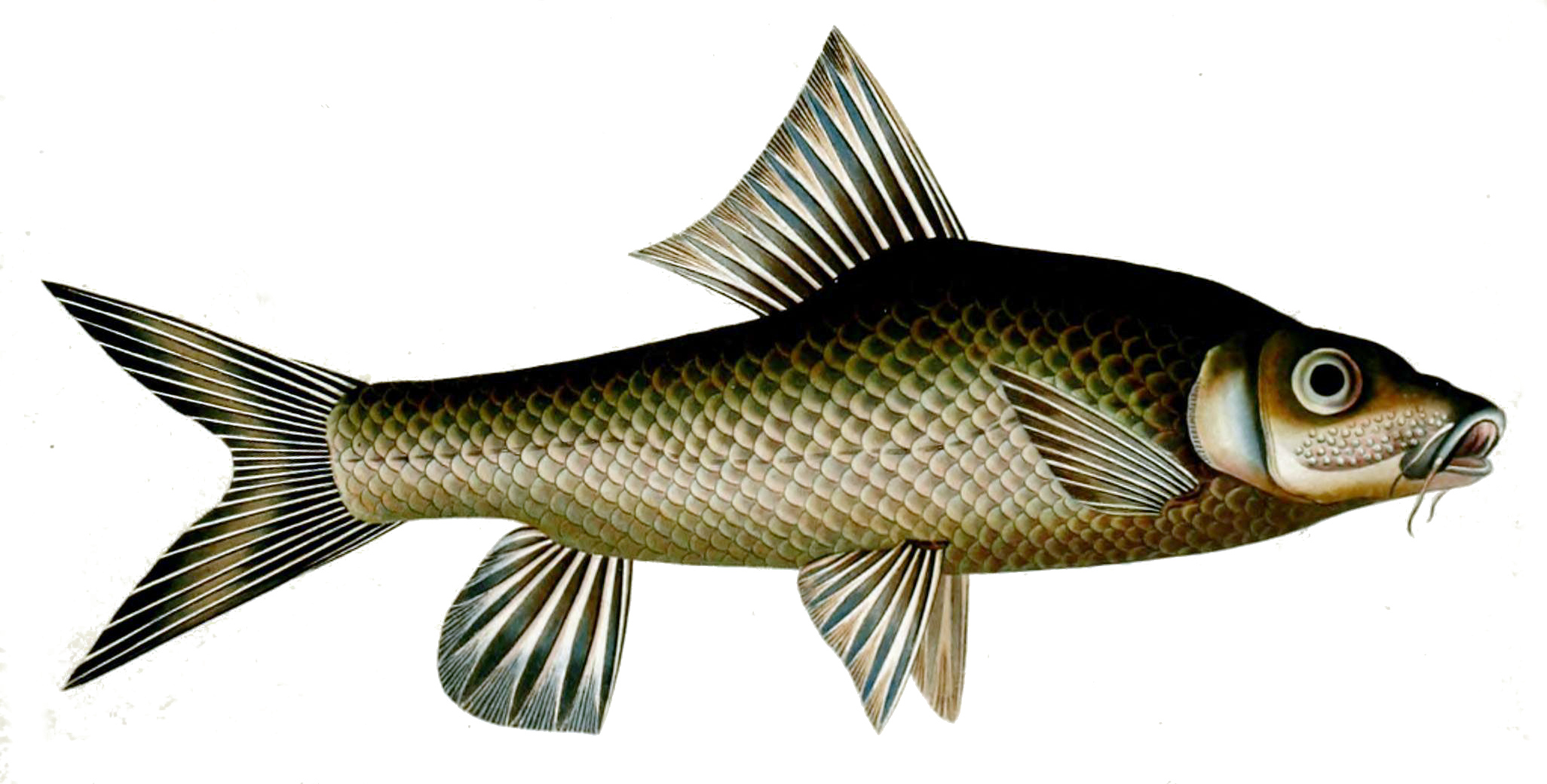 Tor mussullah